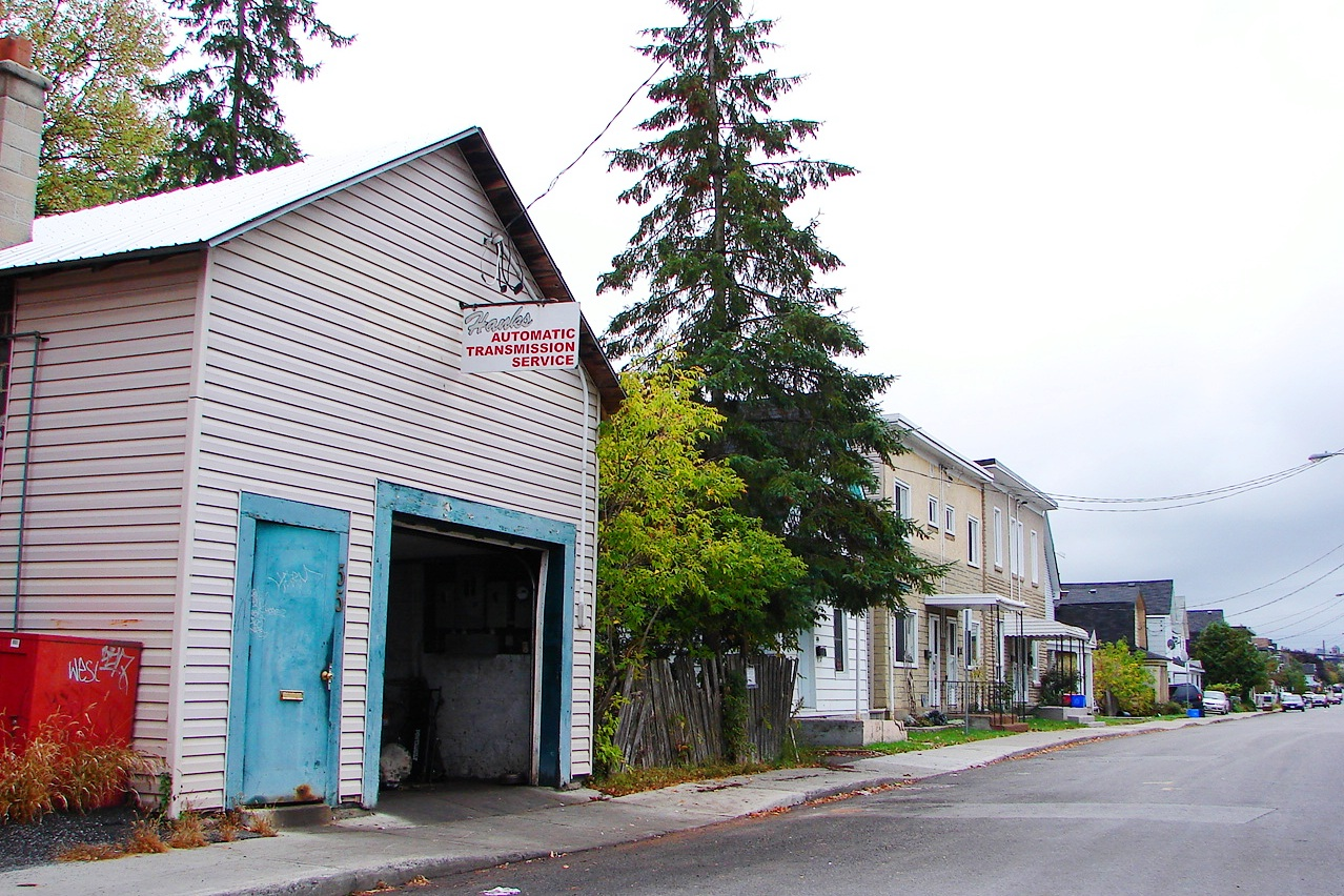 Residential street in Mechanicsville, Ottawa, Ontario, Canada